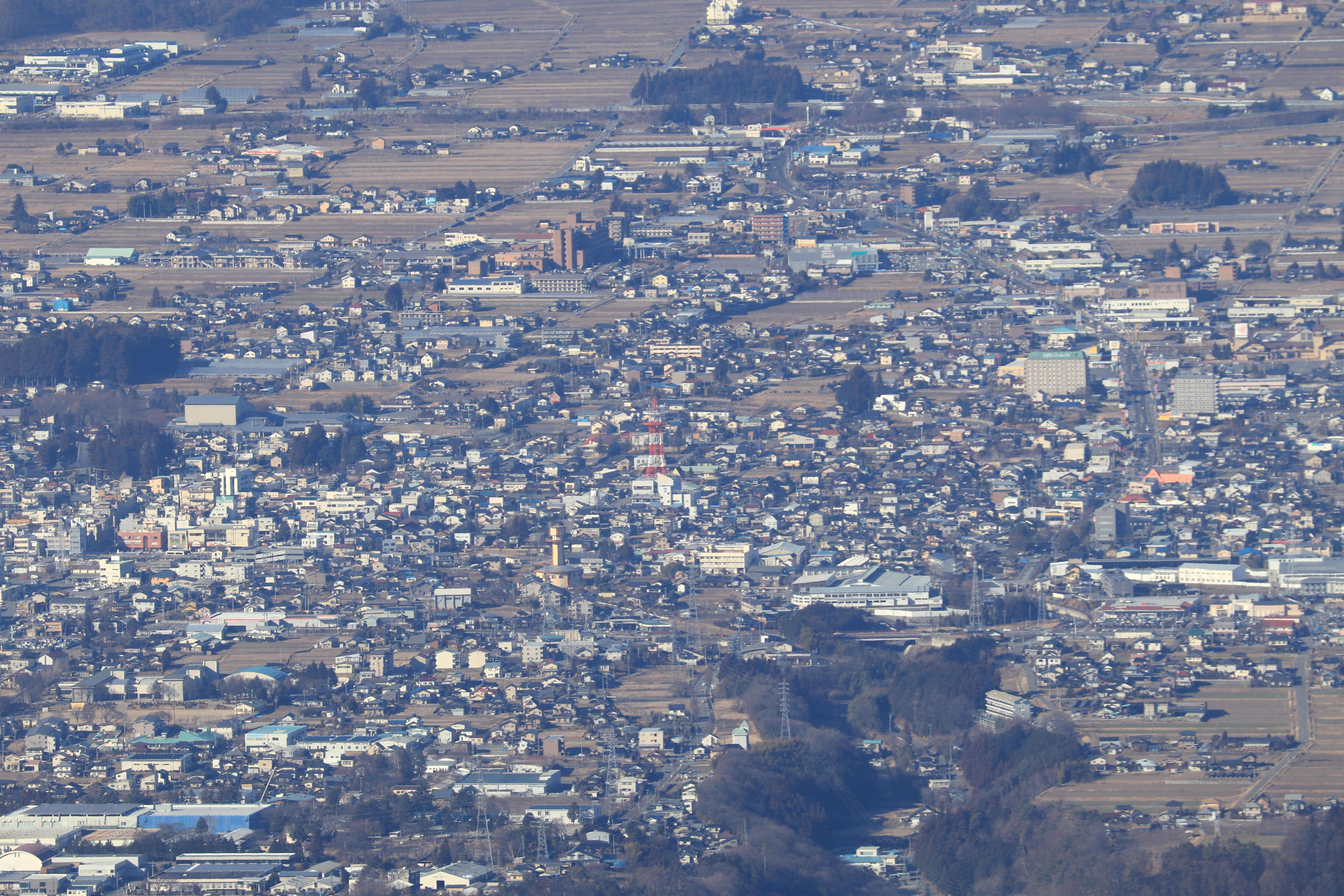 Komagane Interchange and Nagano Prefectural Road Route 75 seen from Mount Tokura in Komagane, Nagano Prefecture, Japan. Canon EOS Kiss X9